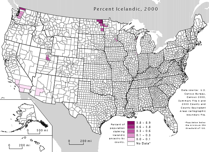 Diagram indicating Icelandic American settlement in the United States. Image as based on the census 2000 by the U.S. Census Bureau. Badagnani (talk) 07:59, 23 May 2009 (UTC)